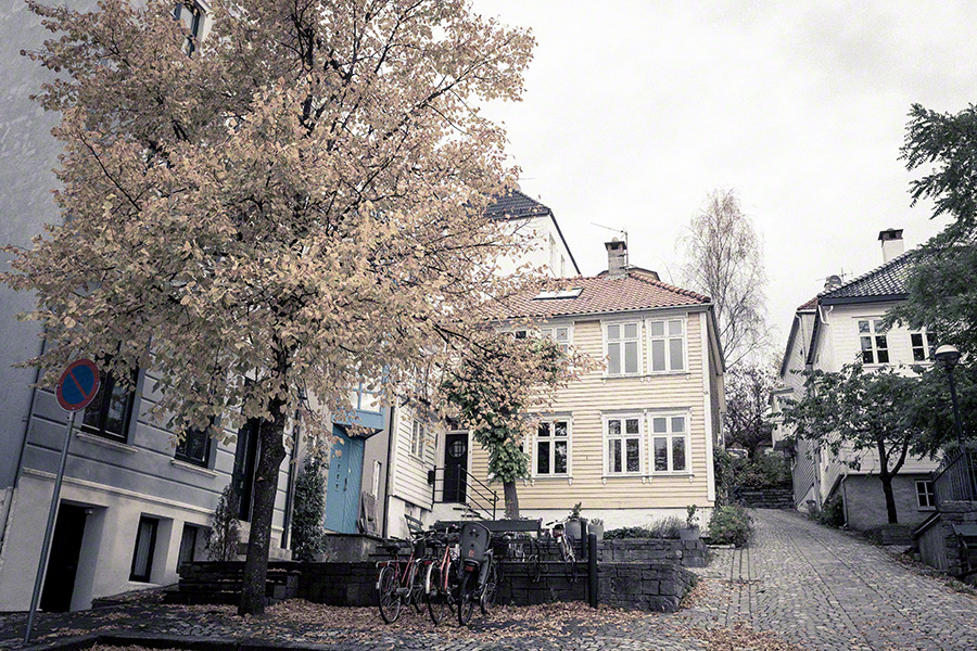 The street "Claus Frimanns gate" is located at Nordnes in Bergen.